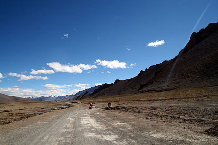 Shot by Ranji